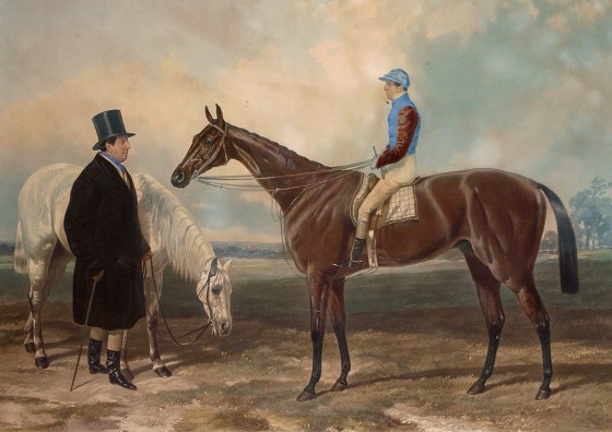 Engraving of Newminster by John Harris from a Harry Hall original.